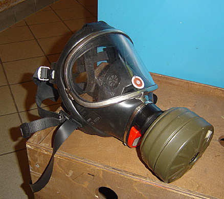 SCBA breathing mask with attached air filter as used by the fire department of the city of Hamburg, Germany, 2004.